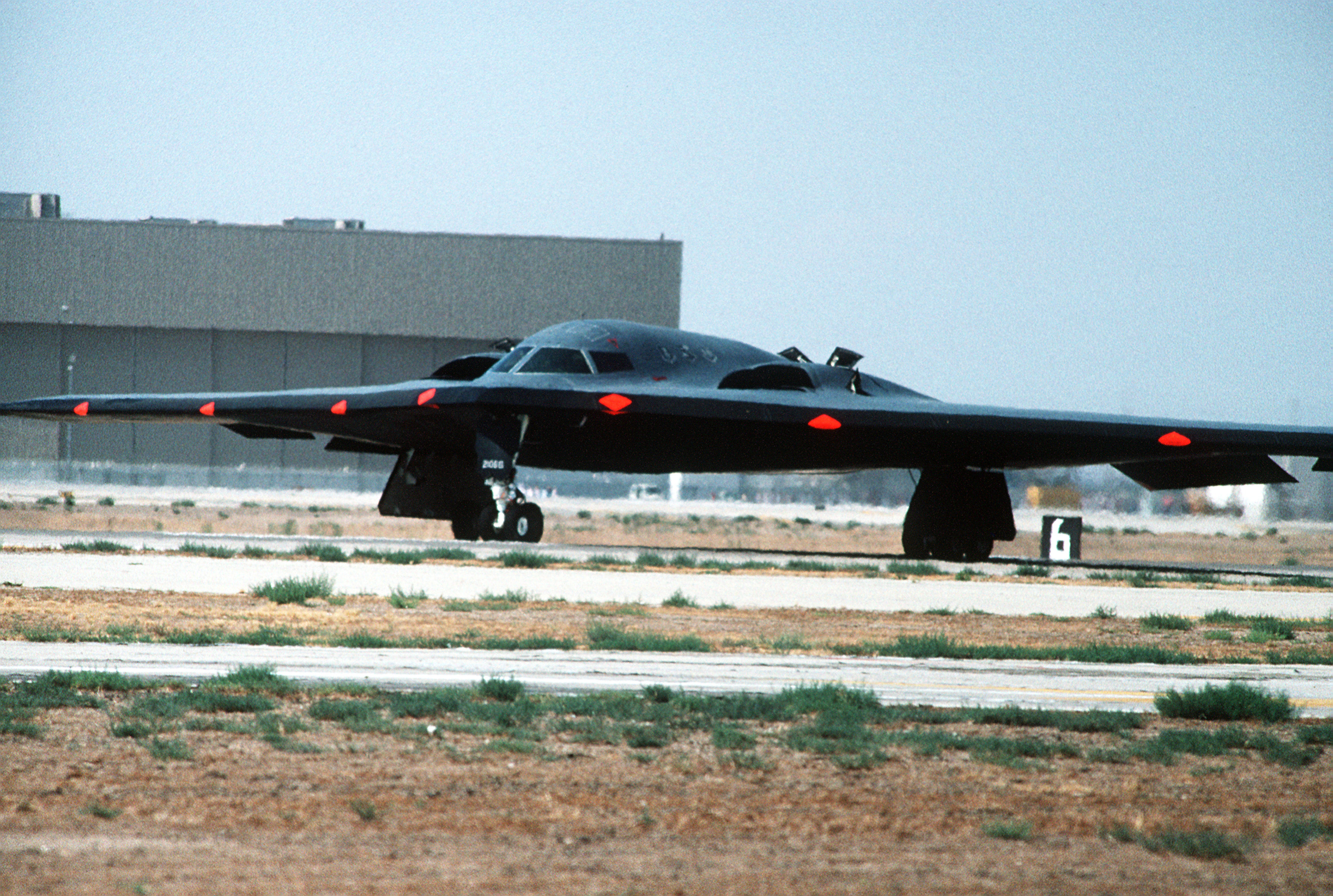 A view of a B-2 advanced technology bomber on the ground at the Air Force Flight Test Center for its first flight.